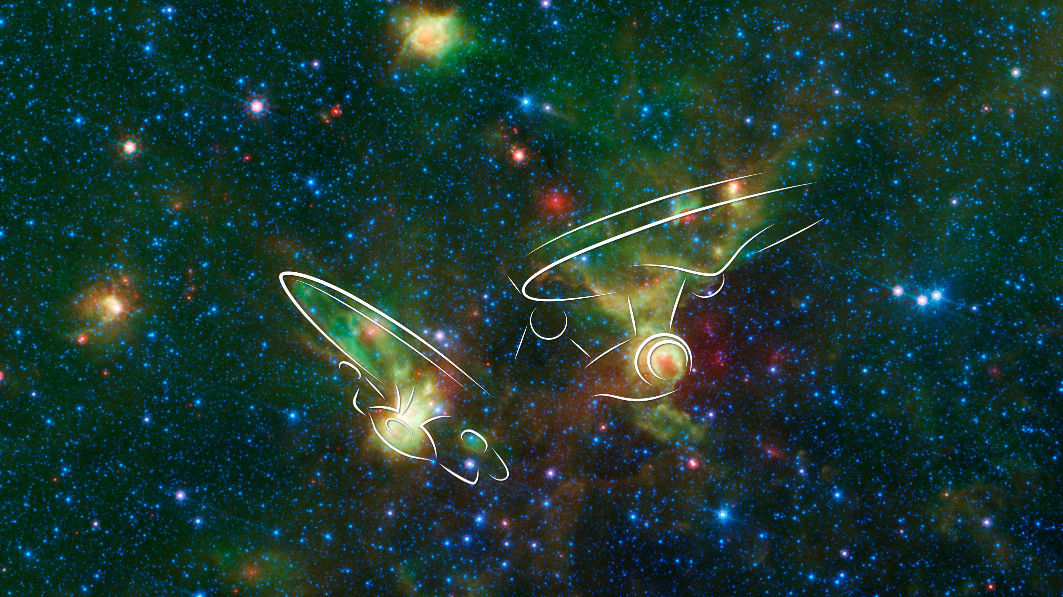 Starburst regions IRAS 19340+2016 and IRAS19343+2026.